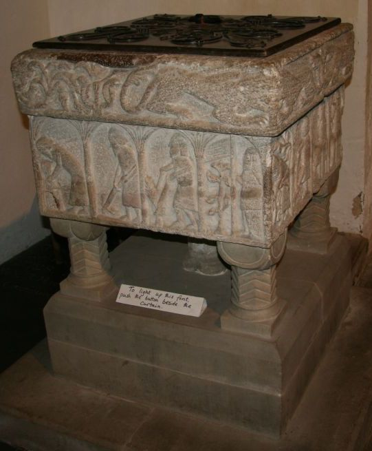 St Mary's church Burnham Deepdale Norfolk